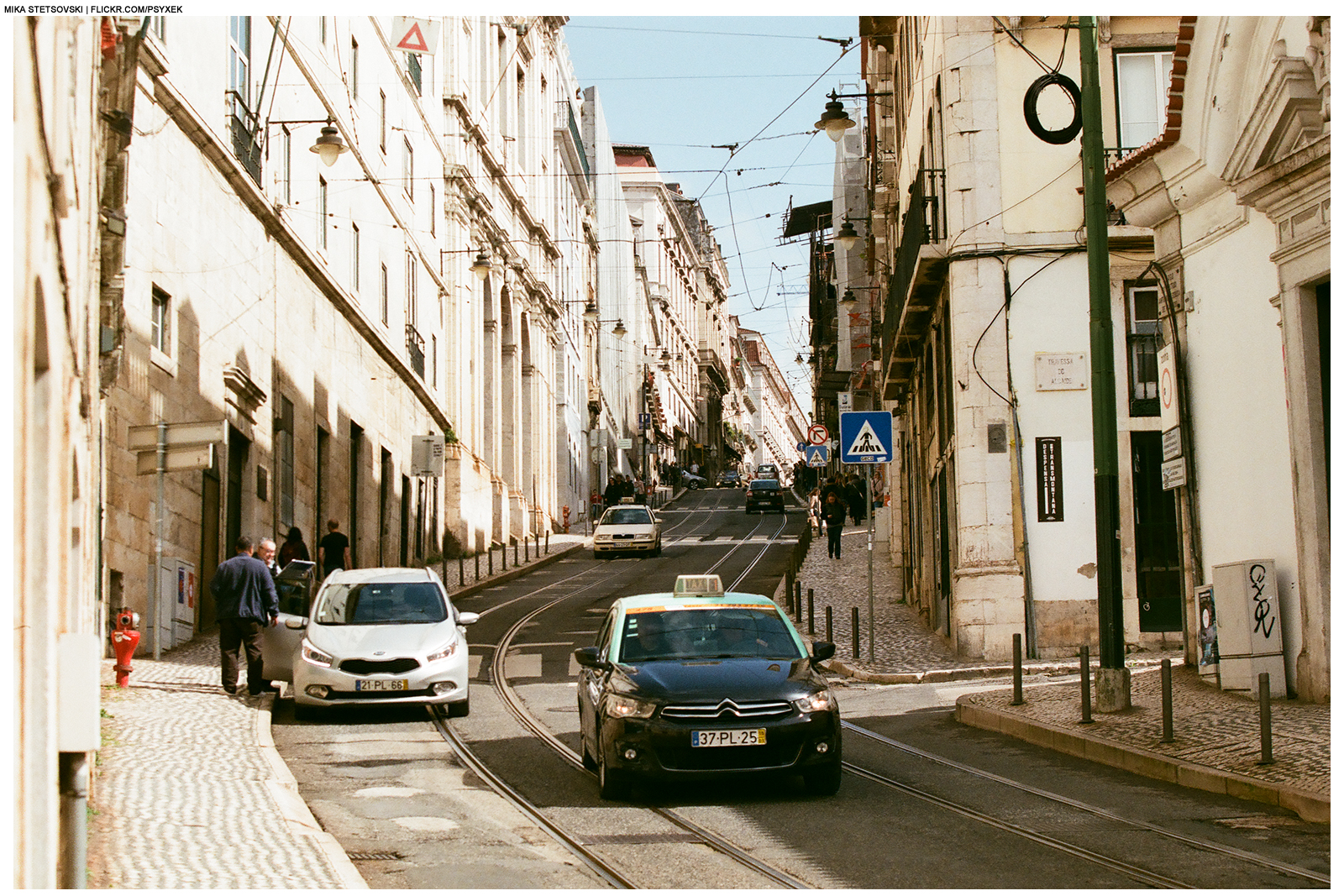 Lisbon